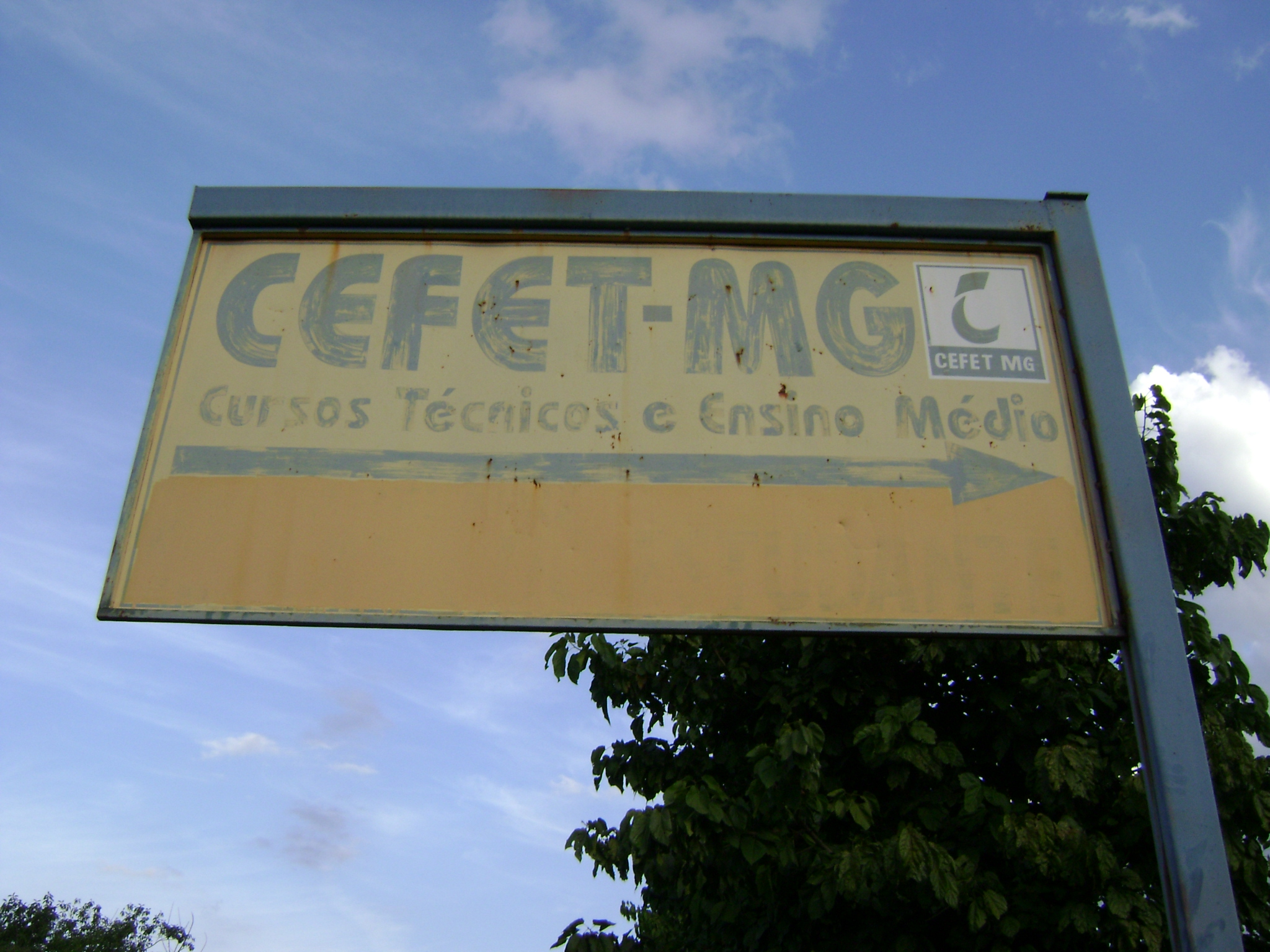 Placa na entrada do CEFET-MG campus Araxá, em Minas Gerais, Brasil.